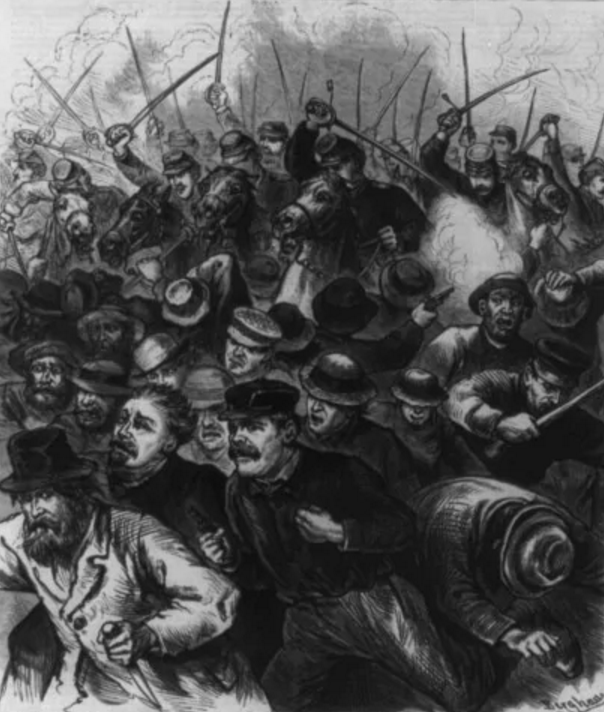 Frank Leslie’s Illustrated Newspaper for August 11, 1877, image depicting violence in Chicago as part of nationwide strikes during the summer of 1877